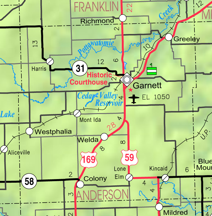 This map of Anderson County, Kansas, USA, is copied at a resolution of 300 pixels/inch from the original PDF file.